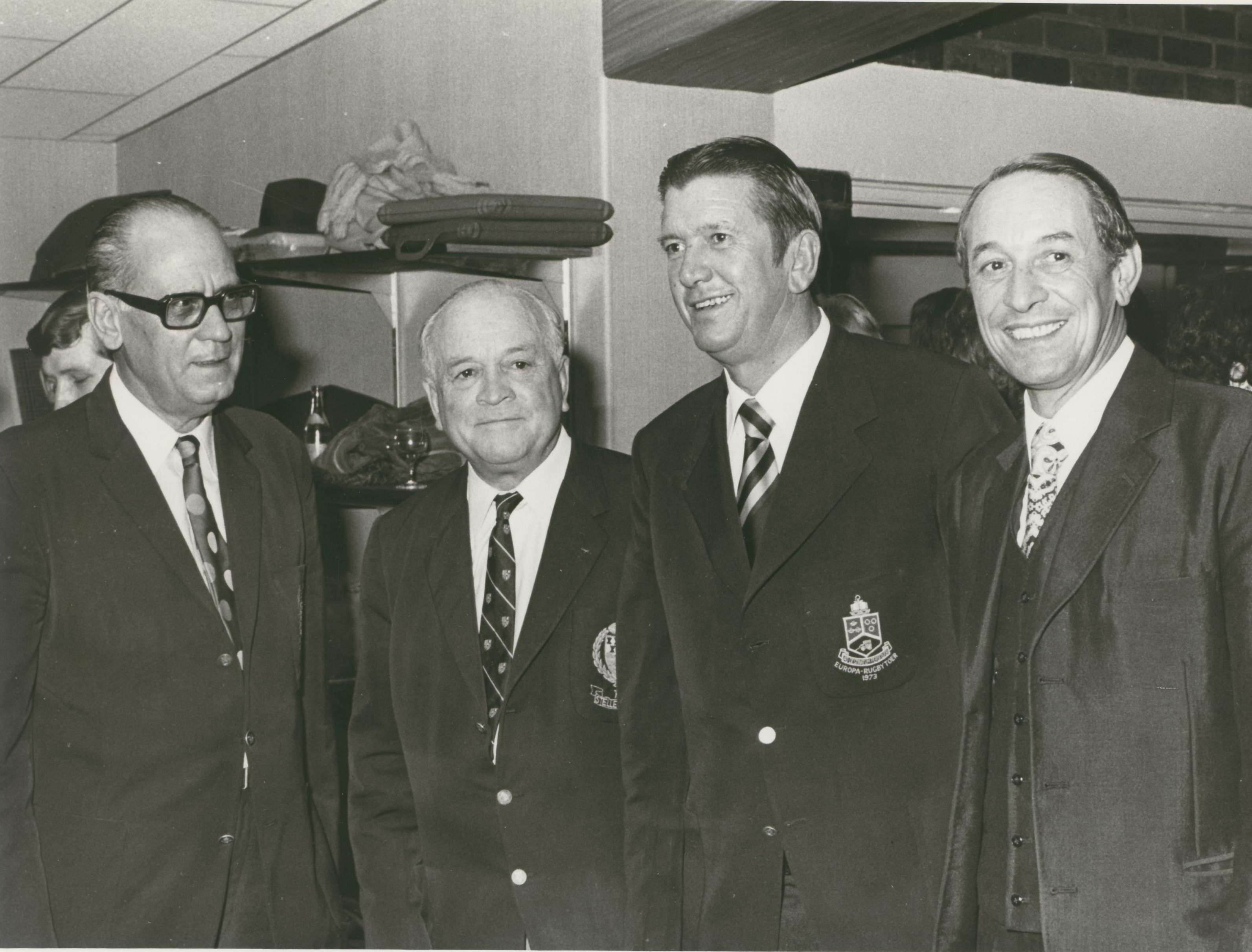 Photo from family files - taken after a game or during a price giving ceremony.